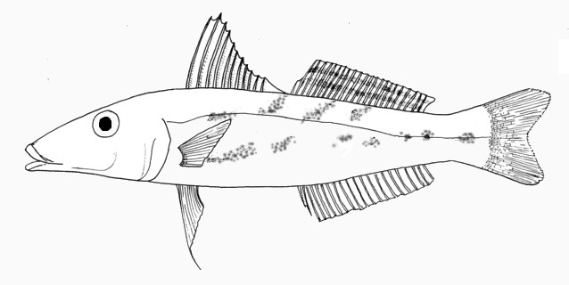 Hand drawn diagram of Sillago aeolus, the Oriental trumpeter whiting using pen and pencil. Diagram based on various images including McKay (1985) and various colour photographs on